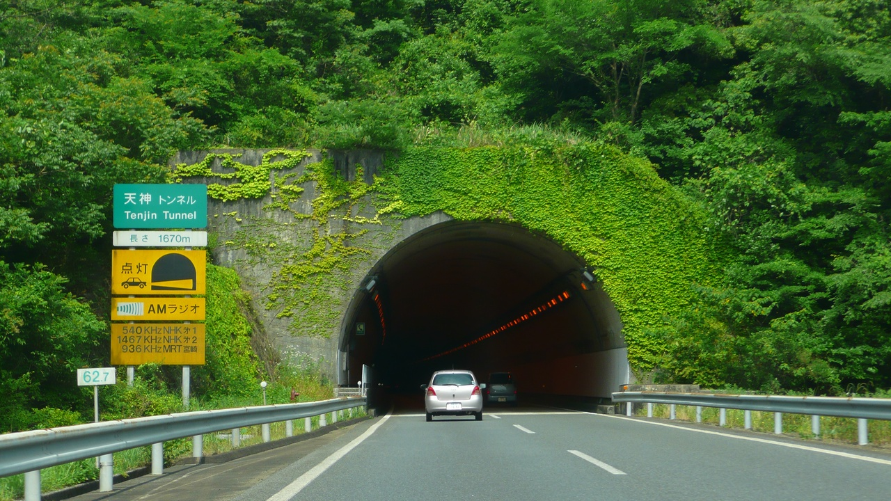 Miyazaki Expressway - Tenjin Tunnel (Tano, Miyazaki City, Japan)